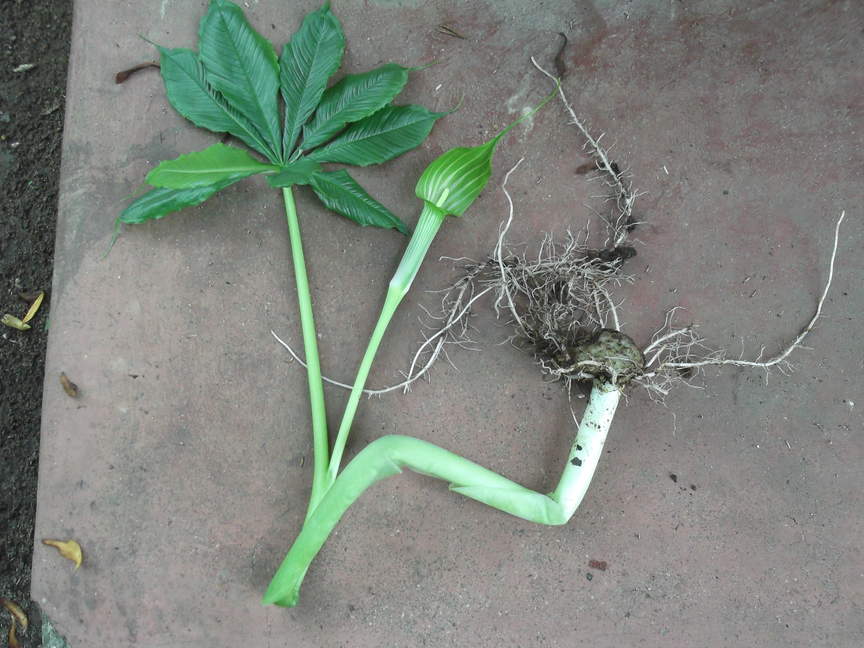 Snake plant-cormous plant,spathe green with darker lines,spadix greenish.